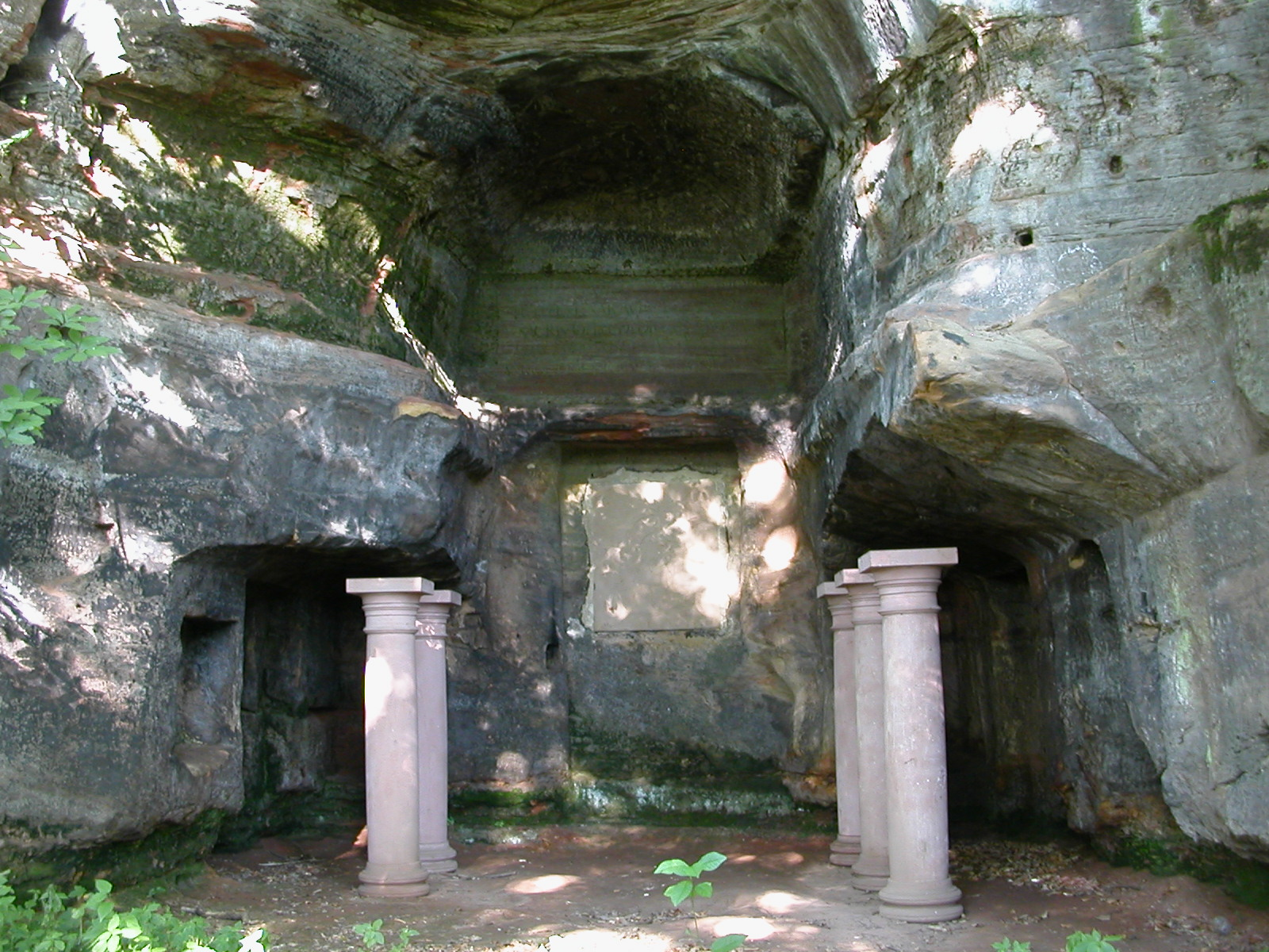 Mithrascave at Halberg in Saarbrücken